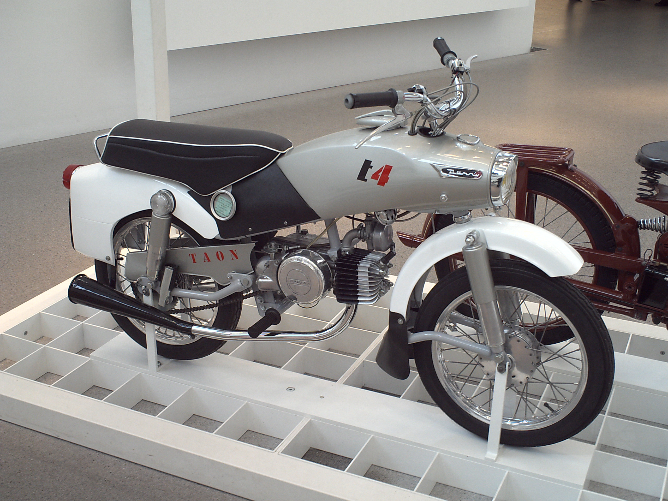 Derny Taon 125, 1955/56 manufacturer: Derny Motors, Paris, France design by Roger Tallon